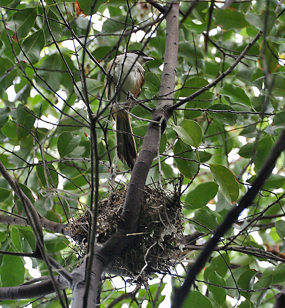 Long-tailed Shrike (Lanius schach) in Kolkata, West Bengal, India.